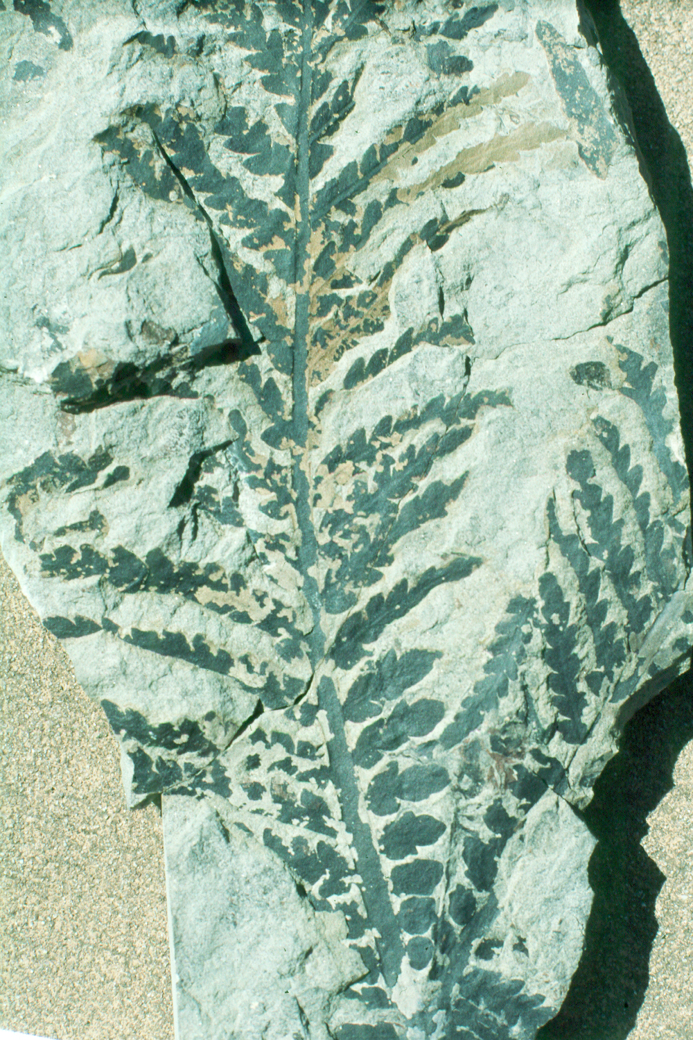 Leaf of an extinct seed fern